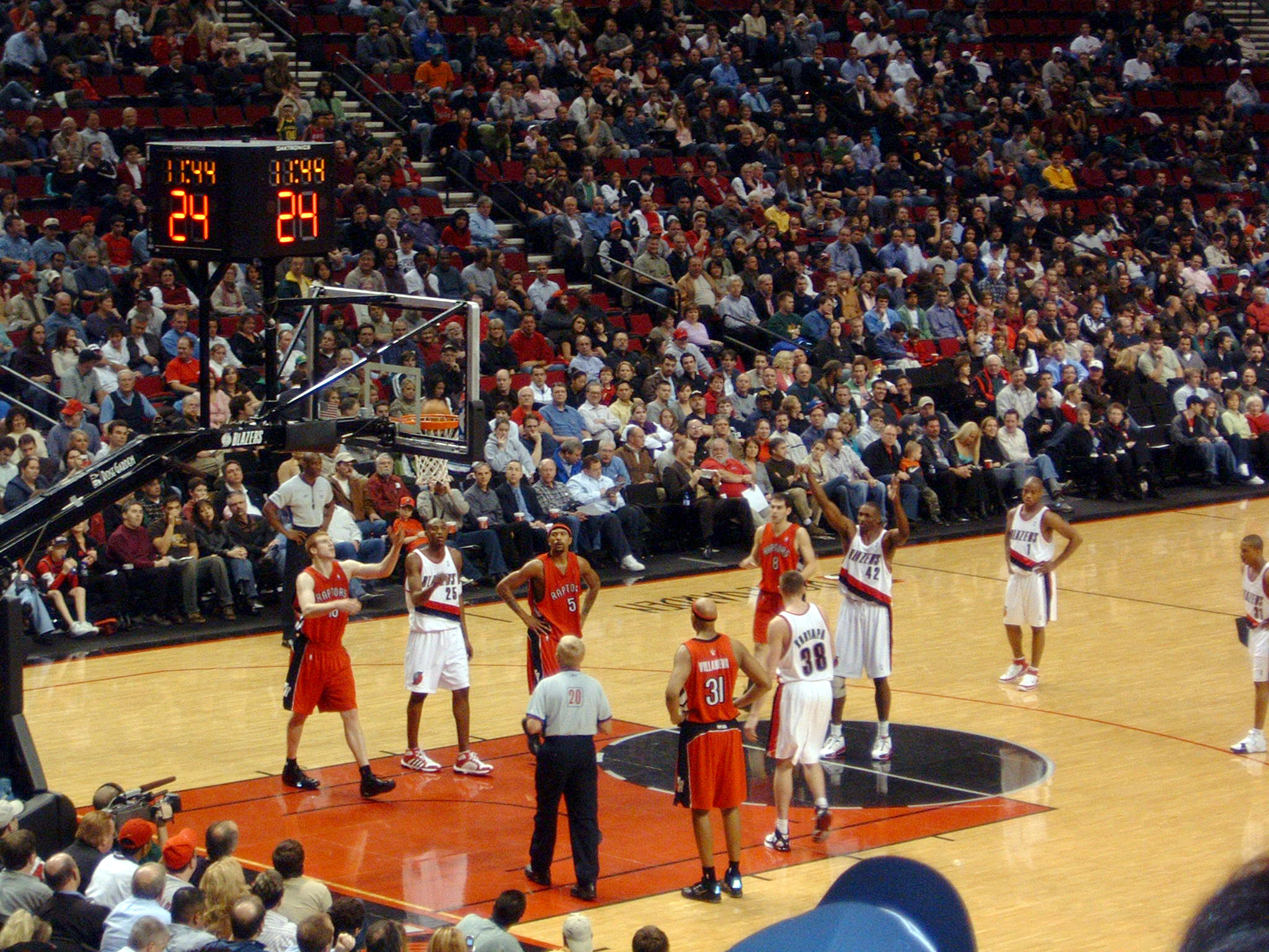 Theo Ratliff of the Portland Trail Blazers attempted a free throw in a game against the Toronto Raptors.